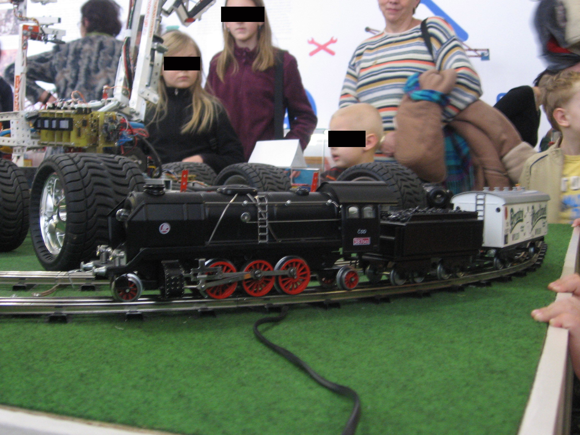 Steam locomotive Merkur - 0 scale